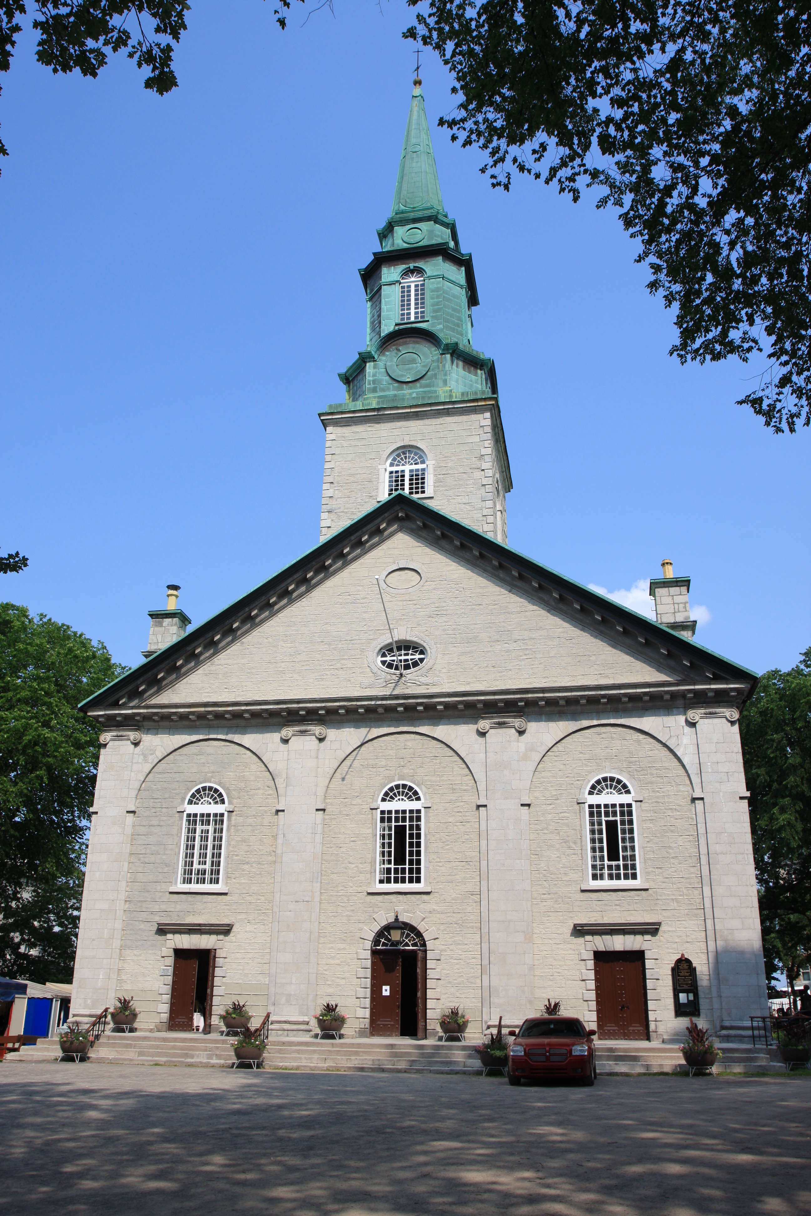 Cathedral of the Holy Trinity - Quebec City